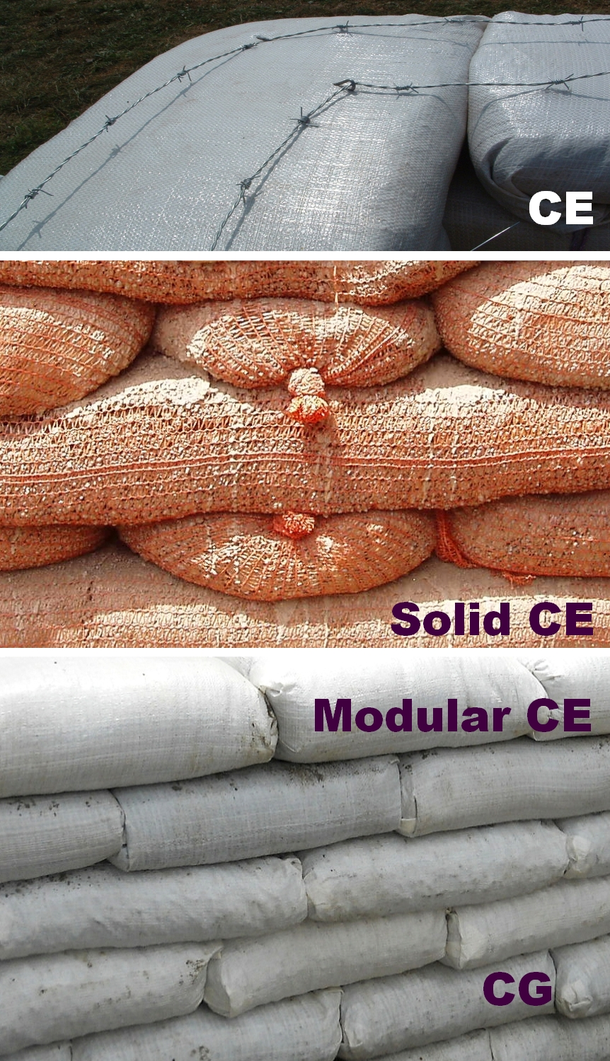 Contained earth is earthbag construction with barbed wire, strong cohesive soil and reinforcement appropriate to specific seismic risk levels. Solid CE uses mesh containers and Modular CE uses traditional fabric bags or tubes.